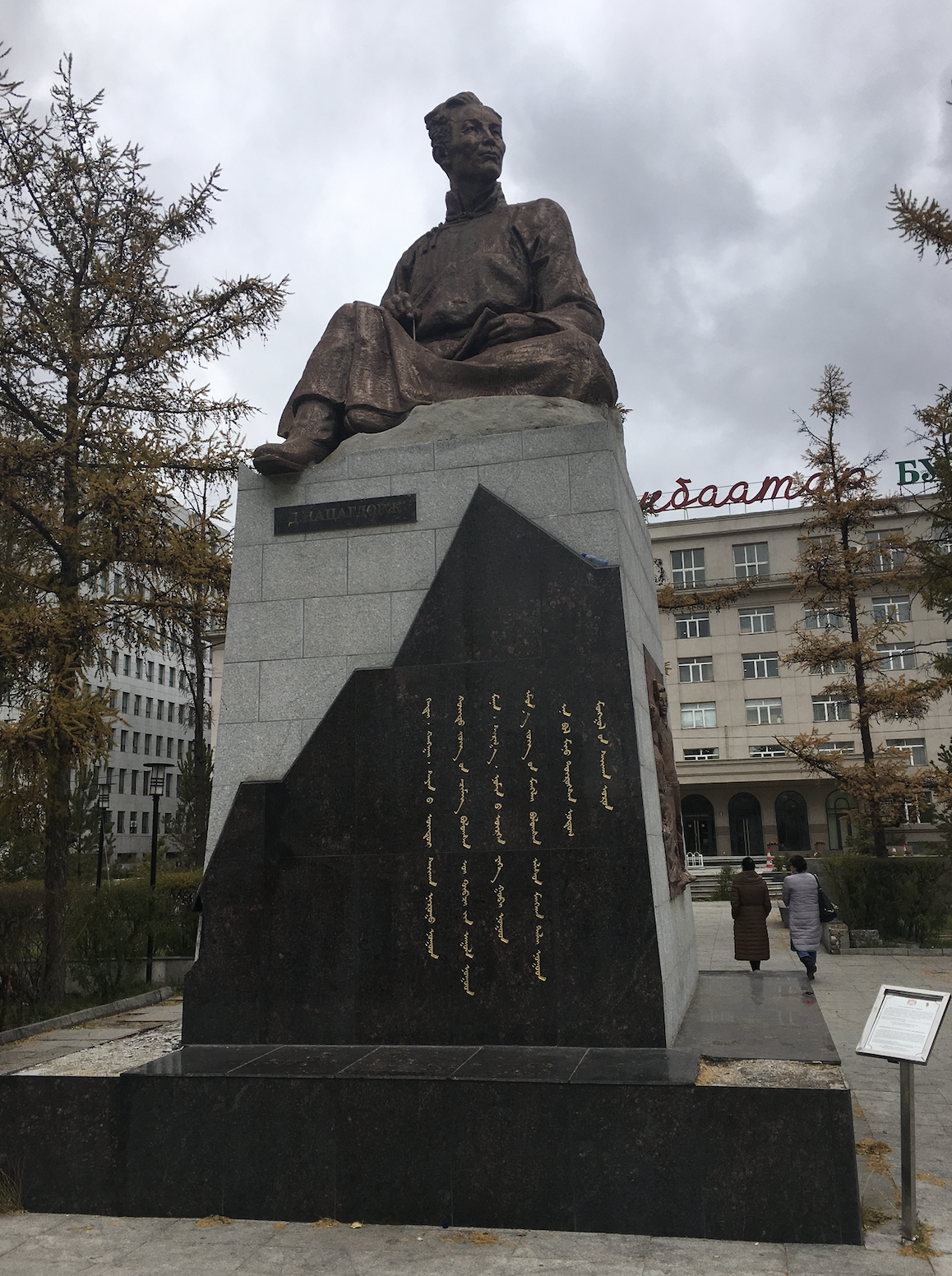 Dashdorjiin Natsagdorj Memorial and Statue, in front of the Ulaanbaatar Hotel, Peace Avenue (Ulaanbaatar)